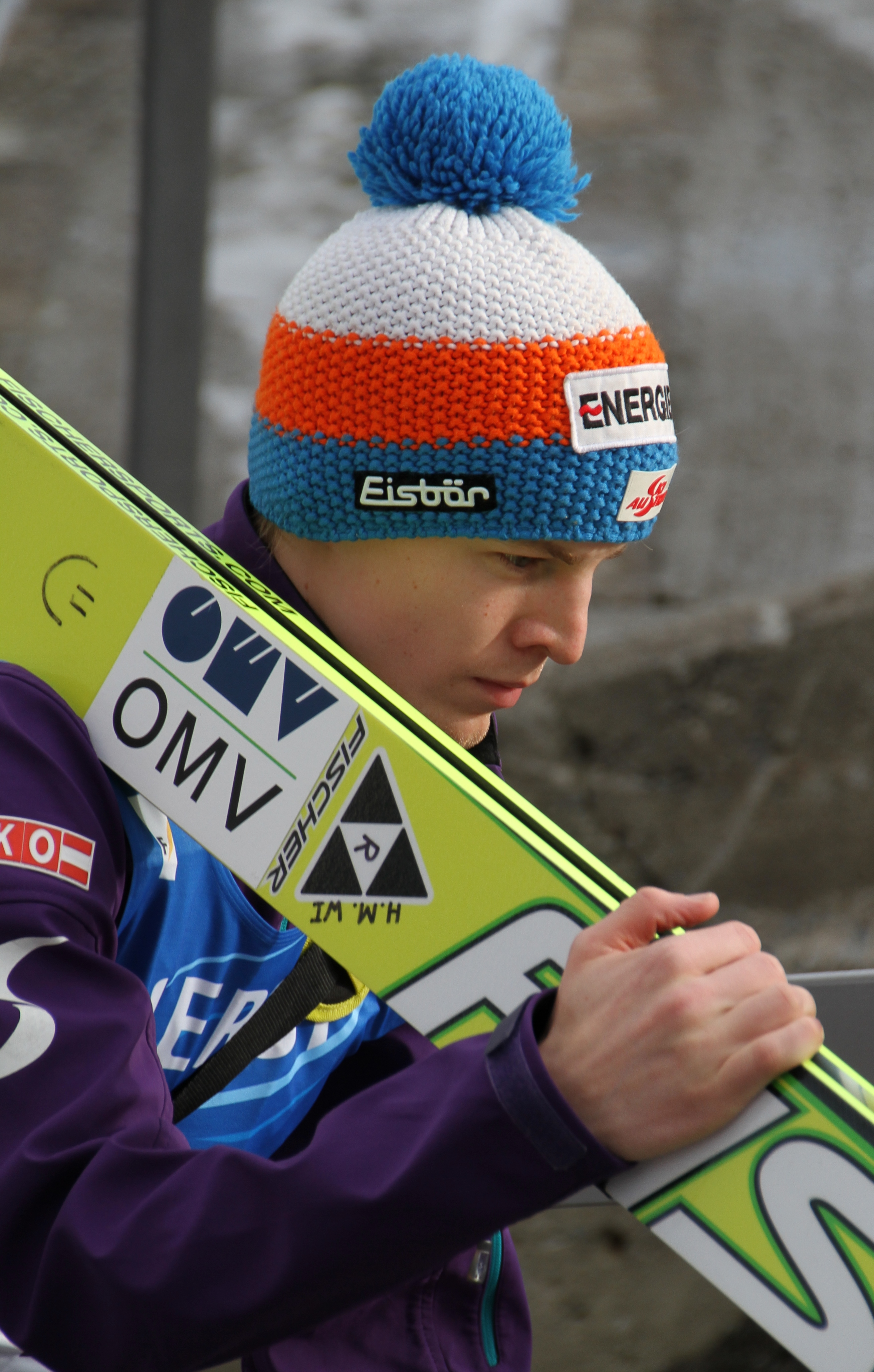 Holmenkollen, Oslo. FIS World Cup Ski Jumping, first round. March 11, 2012. This was the third last WC tournament of the season